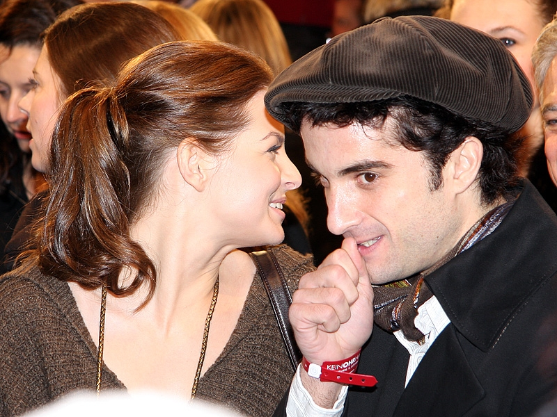 Yvonne Catterfeld and Oliver Wnuk at the premiere of "Keinohrhasen" in December 2007.